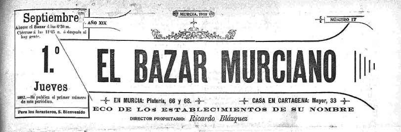 Publication headline.